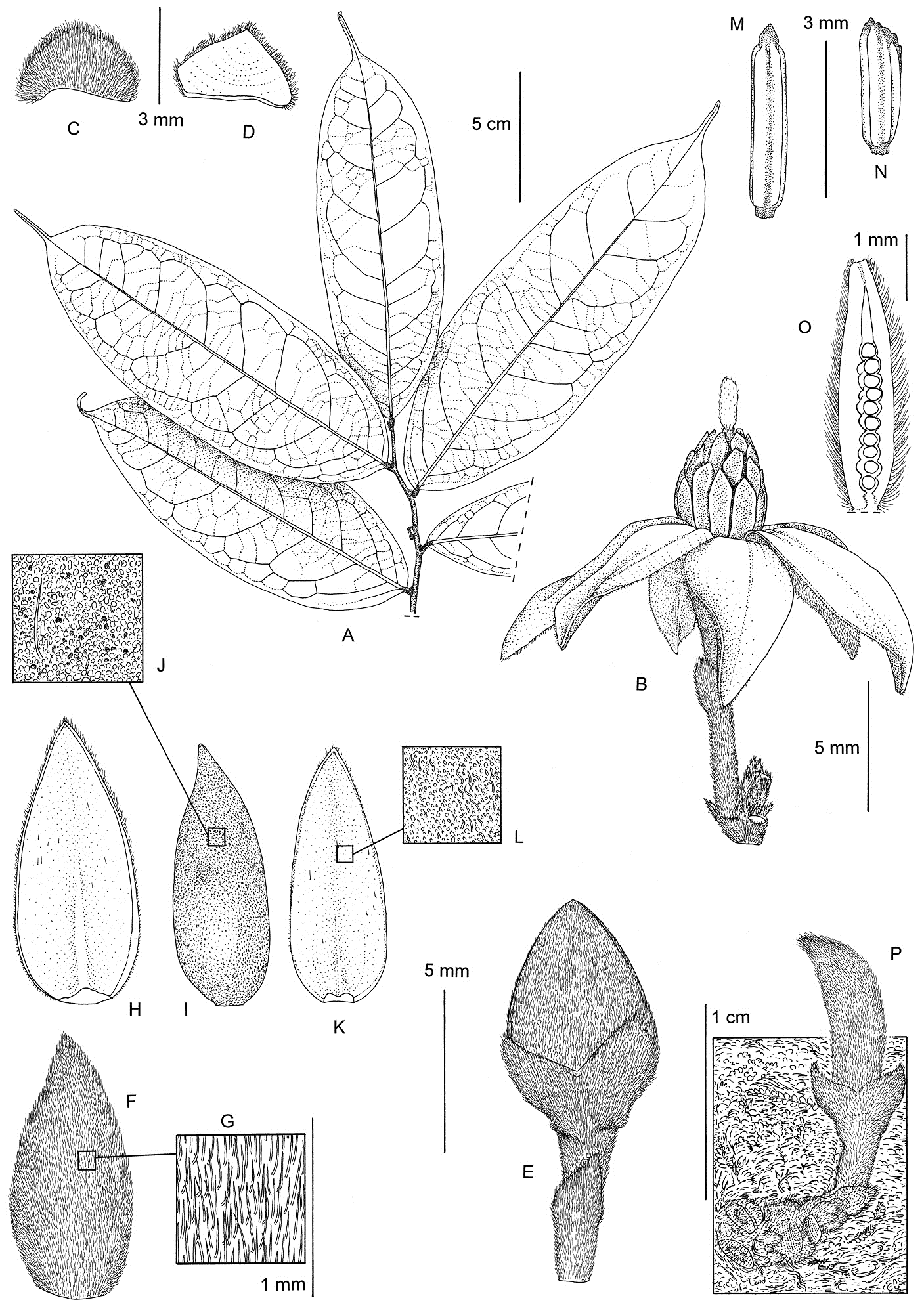 Illustration of Sirdavidia solannona Couvreur & Sauquet. A Flowering branch (flower bud just above second leaf from the bottom) B Flower C One sepal, outer side view D One sepal, inner side view E Flower bud F Outer petal, outer side view G detail of pubescence of outer petal, outer side H Outer petal, inner side view I Inner petal, outer side view J detail of pubescence of inner petal, outer side K Inner petal, inner side view L detail of pubescence of inner petal, inner side M Stamen from inner whorl N stamen from outer whorl O Longitudinal section of carpel showing uniseriate row of ovules (stigma missing) P detail of young fruit.